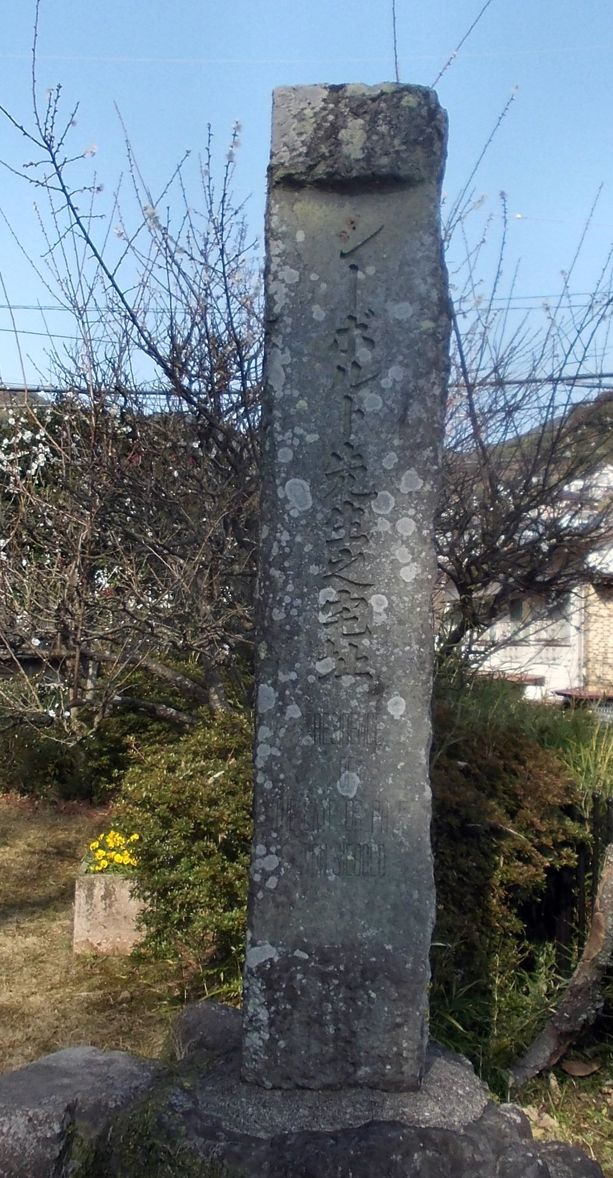 The Siebold Residence Site is located next to the site of his original clinic and boarding school known as Narutaki Juku.